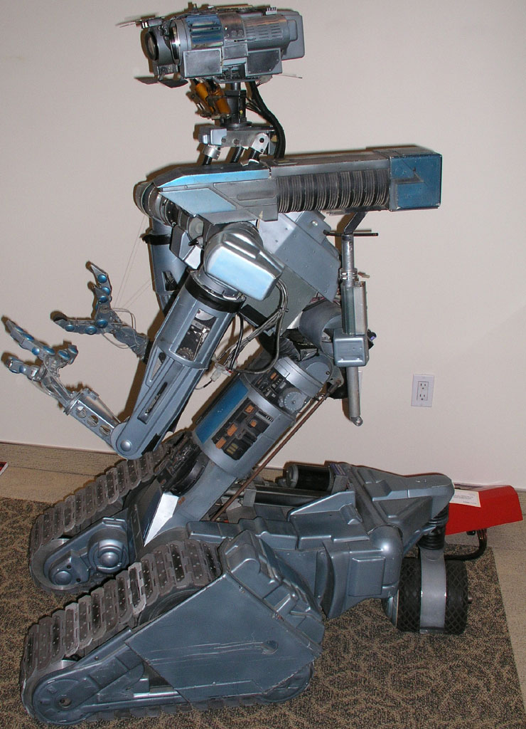 Flank photo of Johnny 5 robot from the Short Circuit movies, sold on auction for $138,000.